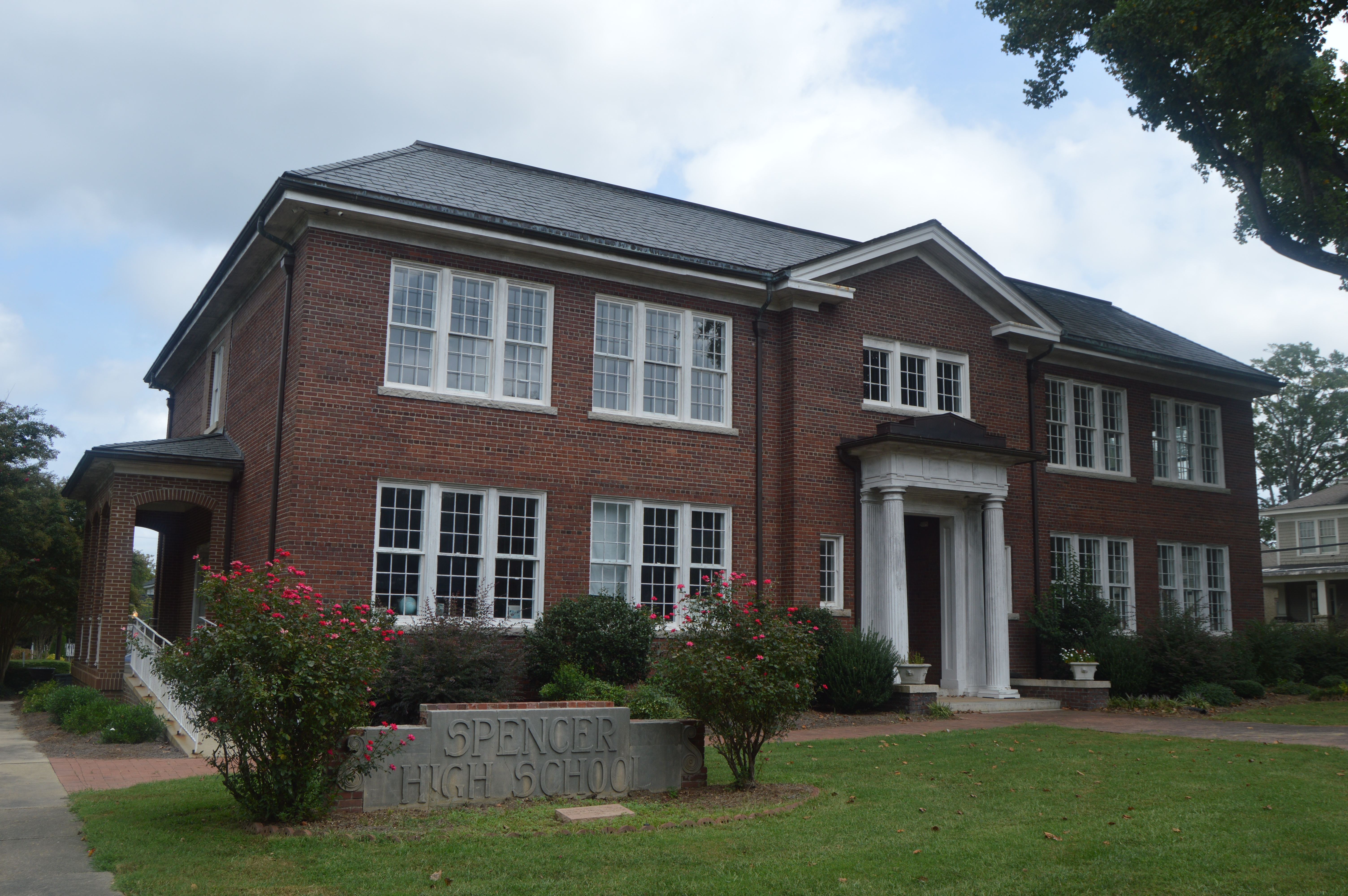 Western front of the former Spencer High School (now the town hall), located in the park bounded by Carolina Avenue, Third Street, Rowan Avenue, and Fourth Street in Spencer, North Carolina, United States. It is part of the Spencer Historic District, a historic district that is listed on the National Register of Historic Places.